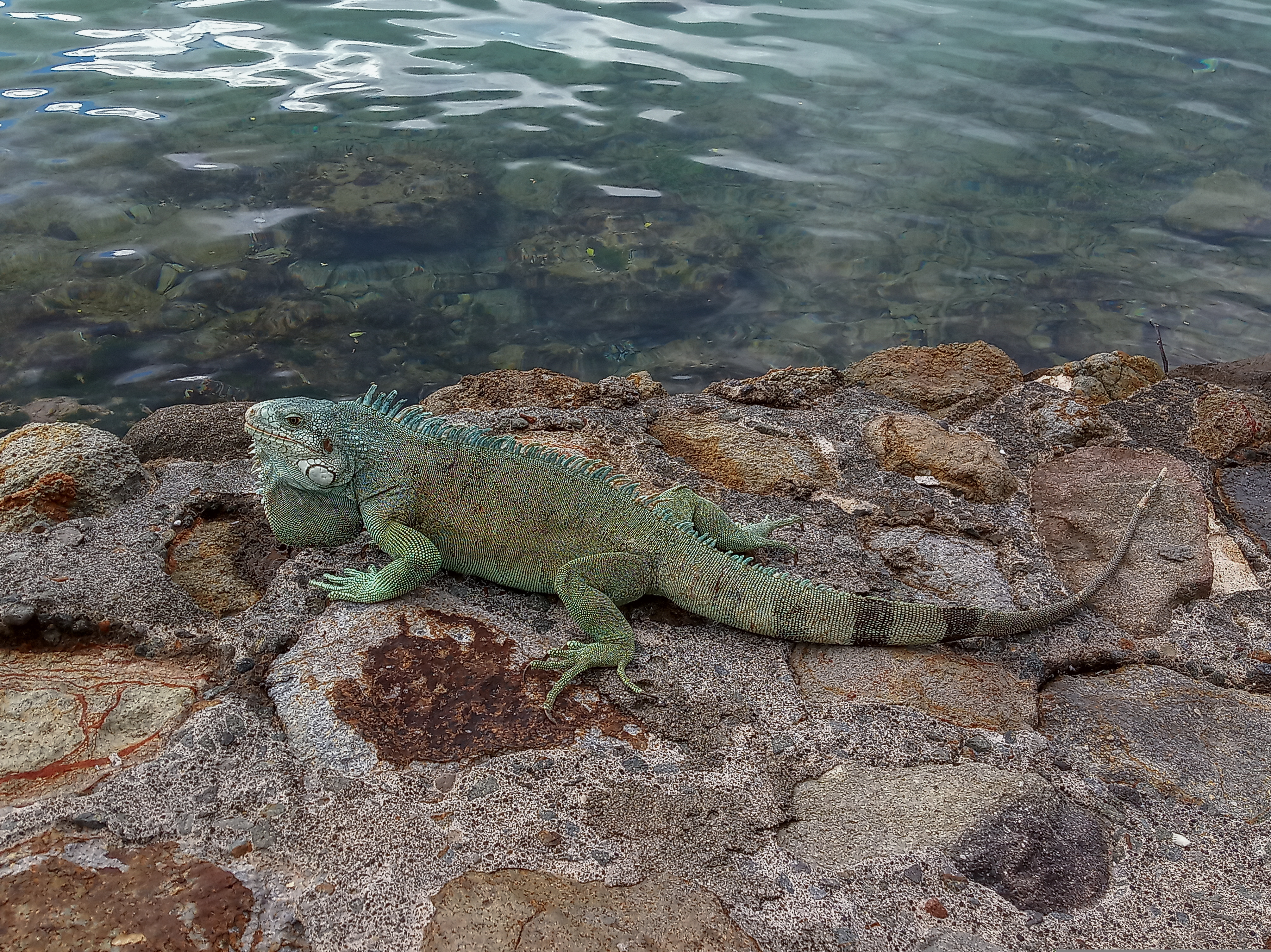 At Terre-de-Haut, Les Saintes Guadeloupe